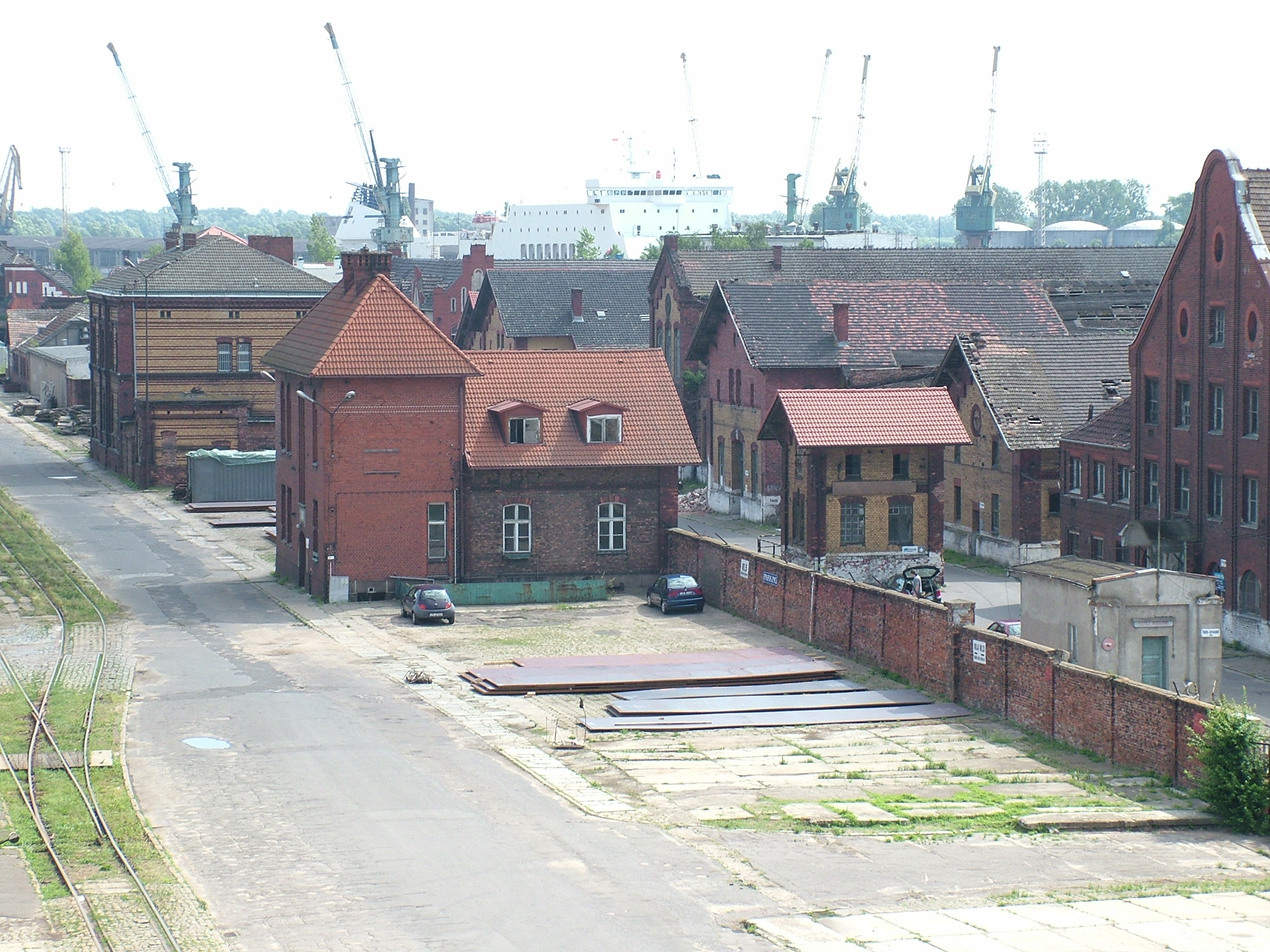 Port buildings